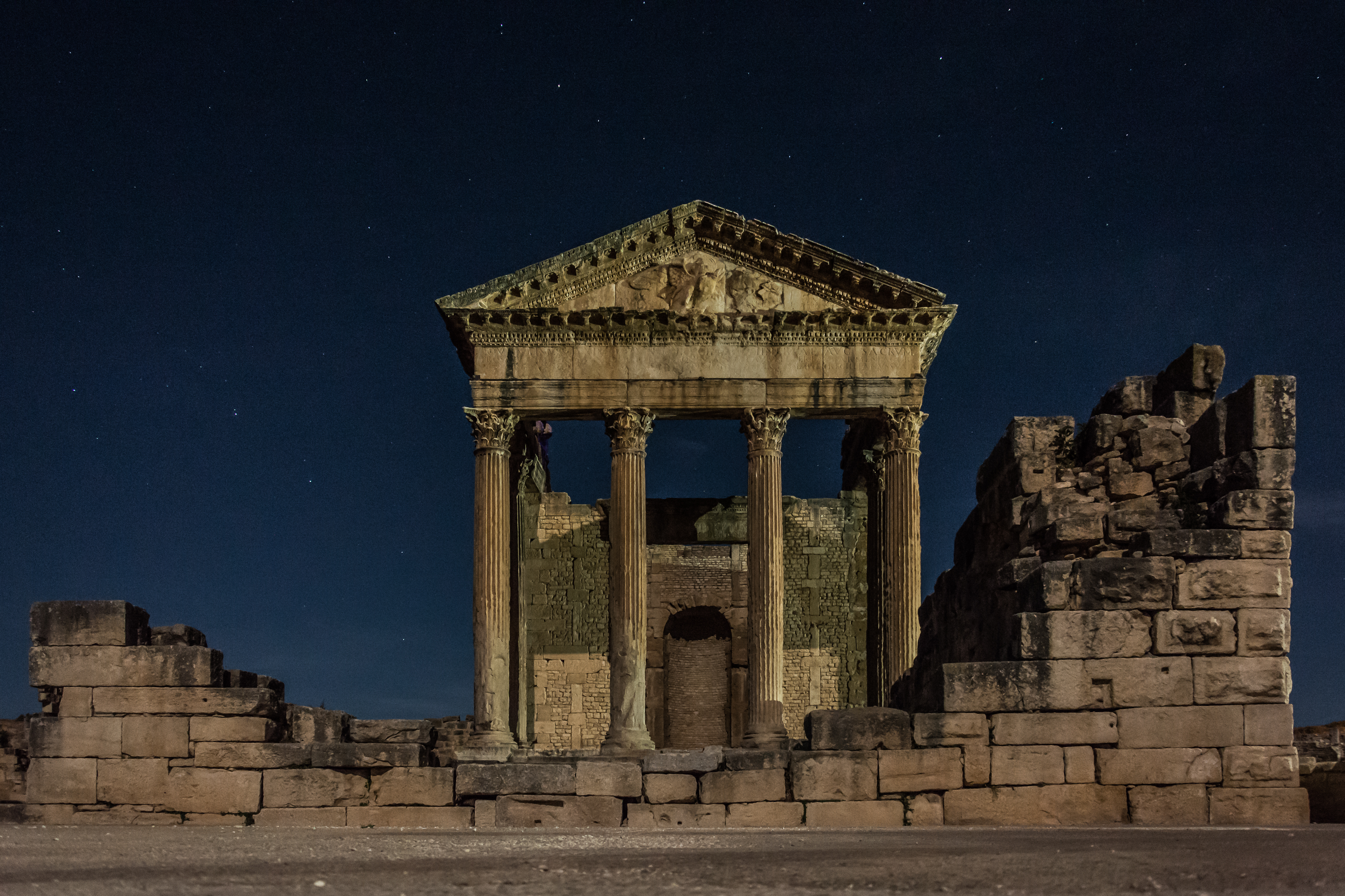 The capitol of Dougga in Beja is a Roman temple from the 2nd century CE, principally dedicated to Rome’s protective triad: Jupiter Optimus Maximus, Juno Regina and Minerva Augusta. the capitol must have been completed in 166-167 CE and we have to say that this is the most preserved Capitol in Tunisia